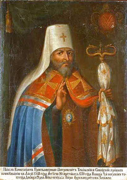 Saint Pavel of Tobolsk